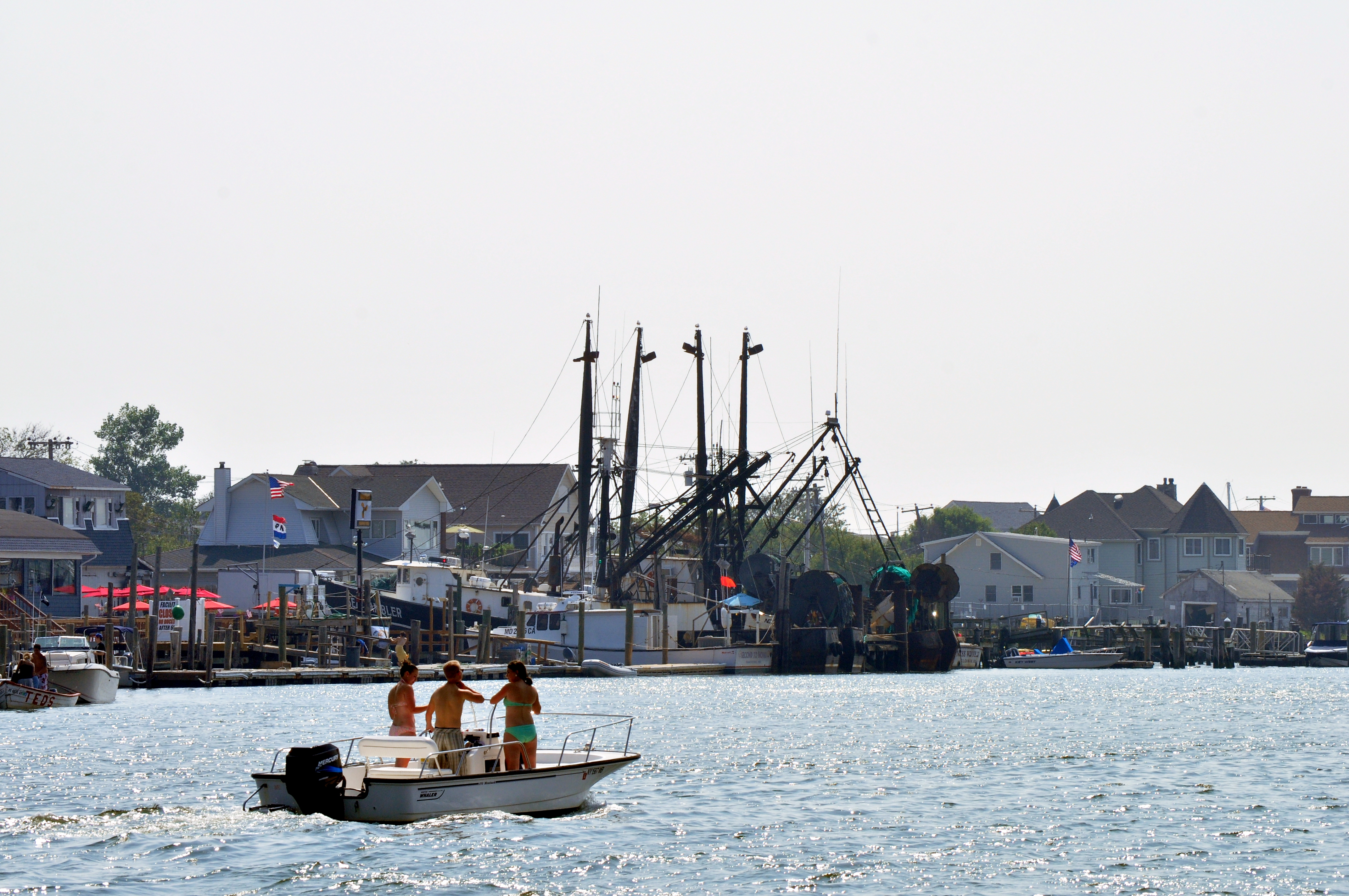 Point Lookout, New York seen from the Freeport Water Taxi on Reynolds Channel.